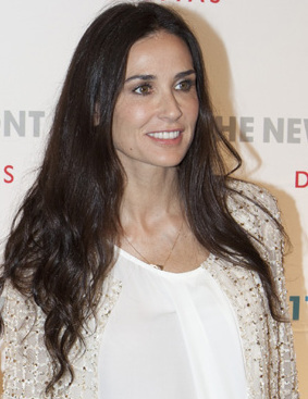 NewFront speakers Ashton Kutcher and Demi Moore enter The NewFront.